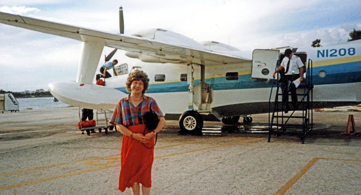 Miami Seaplane Base with Chalks Grumman Mallard after arrival from Bimini in 1989